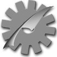 Rating badge for the retired U.S. Navy rating "Data Processing Technician"